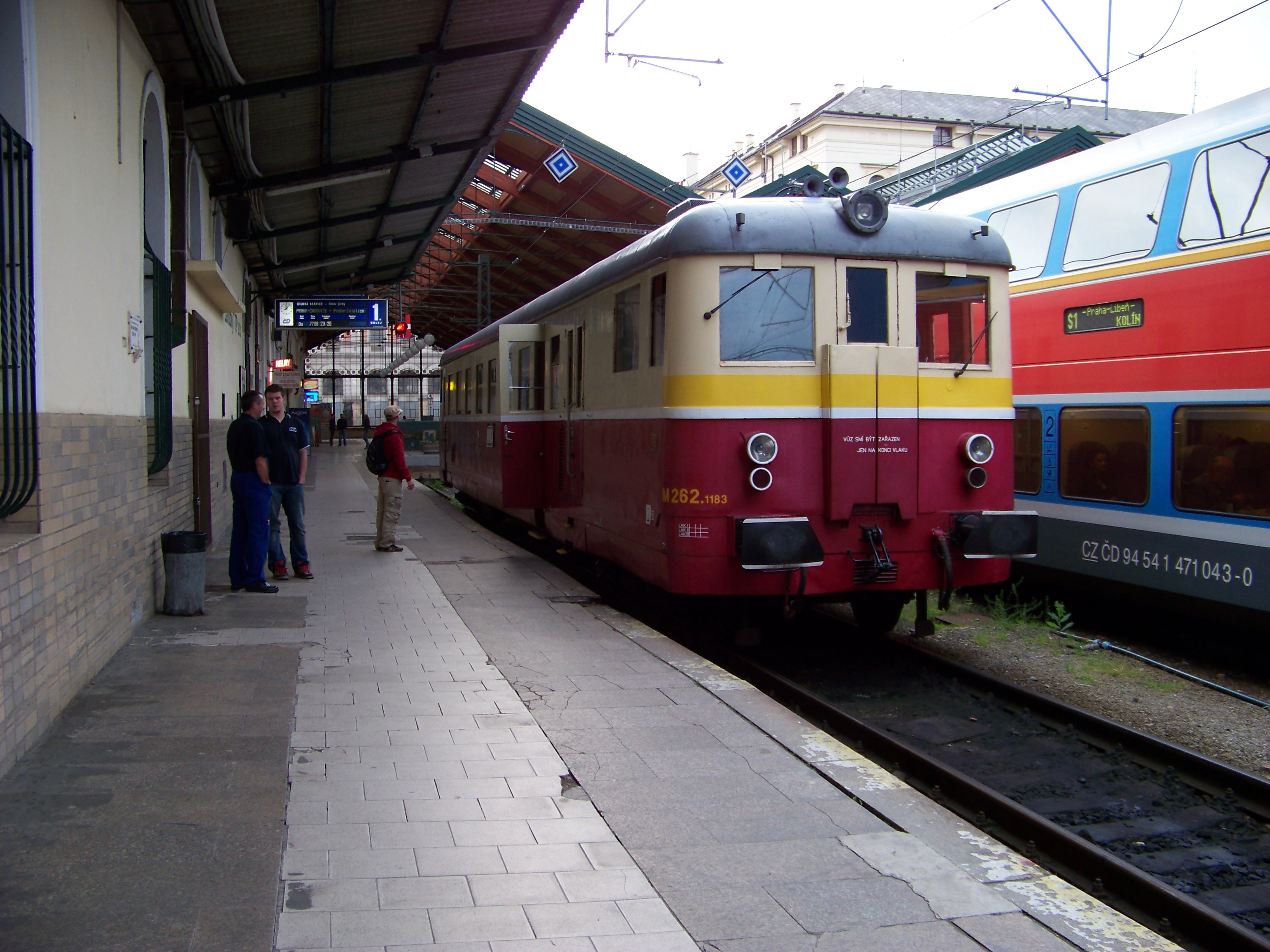 Prague-New Town, the Czech Republic. Praha Masarykovo nádraží, Esko Praha line S31, a motor car of KŽC.